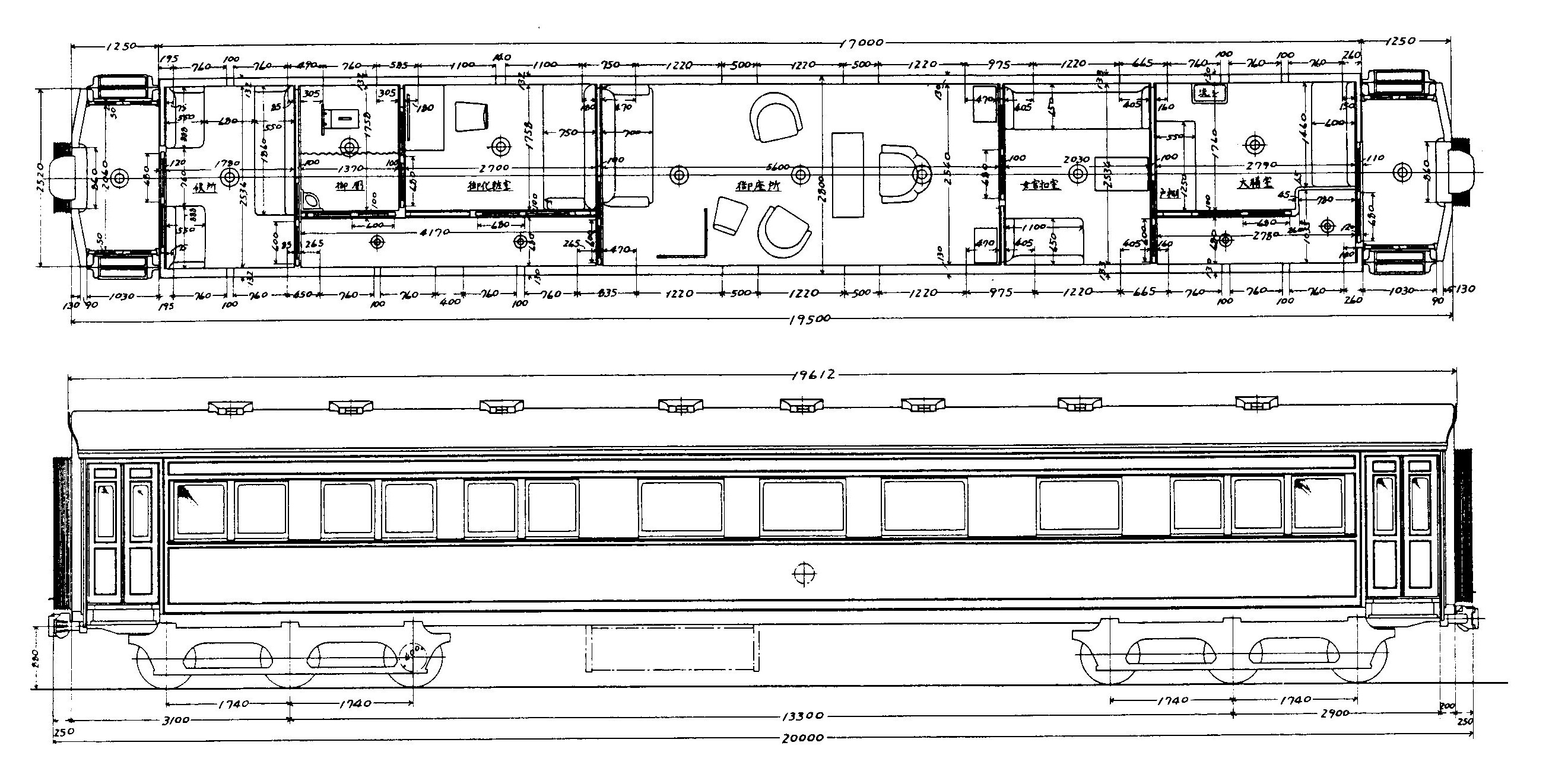 Type drawing of Imperial Car (Goryosha) No.3 (2nd)